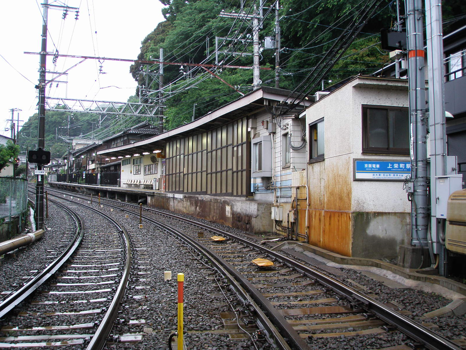 Keihan Eletric Railway Keishin Line Kamisakaemachi Station platform for Hama-Otsu